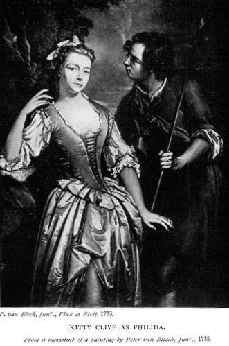 Kitty Clive (Kitty Clive) in Phlida. Mezzotinto from a painting by Peter van Bleeck